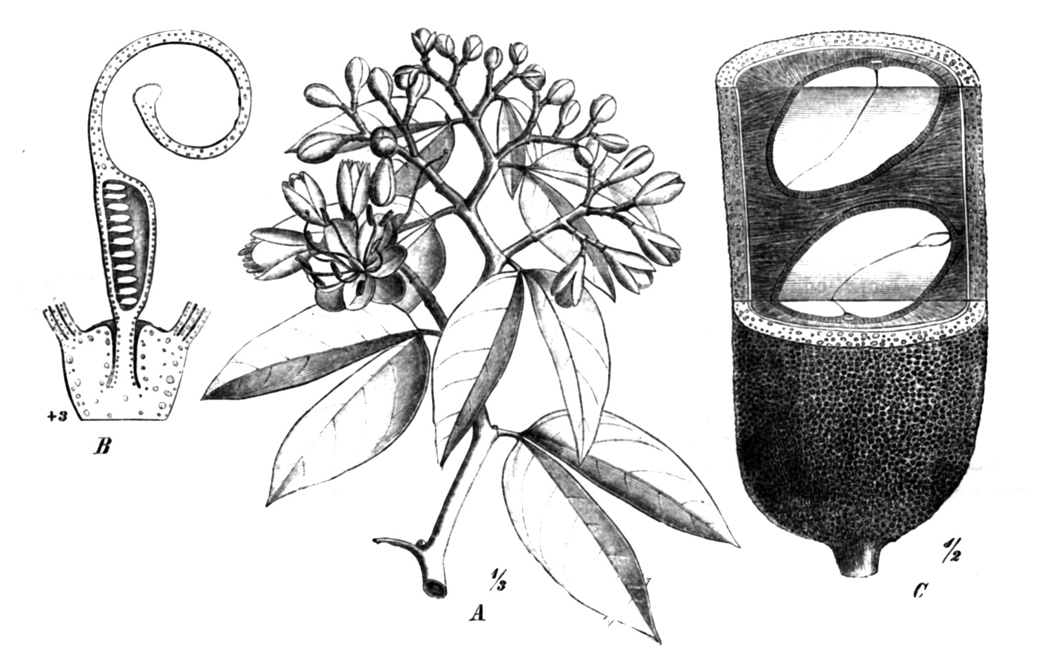 Illustration from book